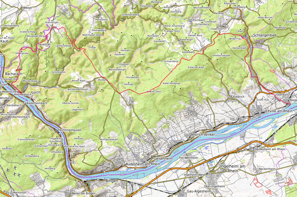 Track of the "Rheingauer Gebück" hiking route